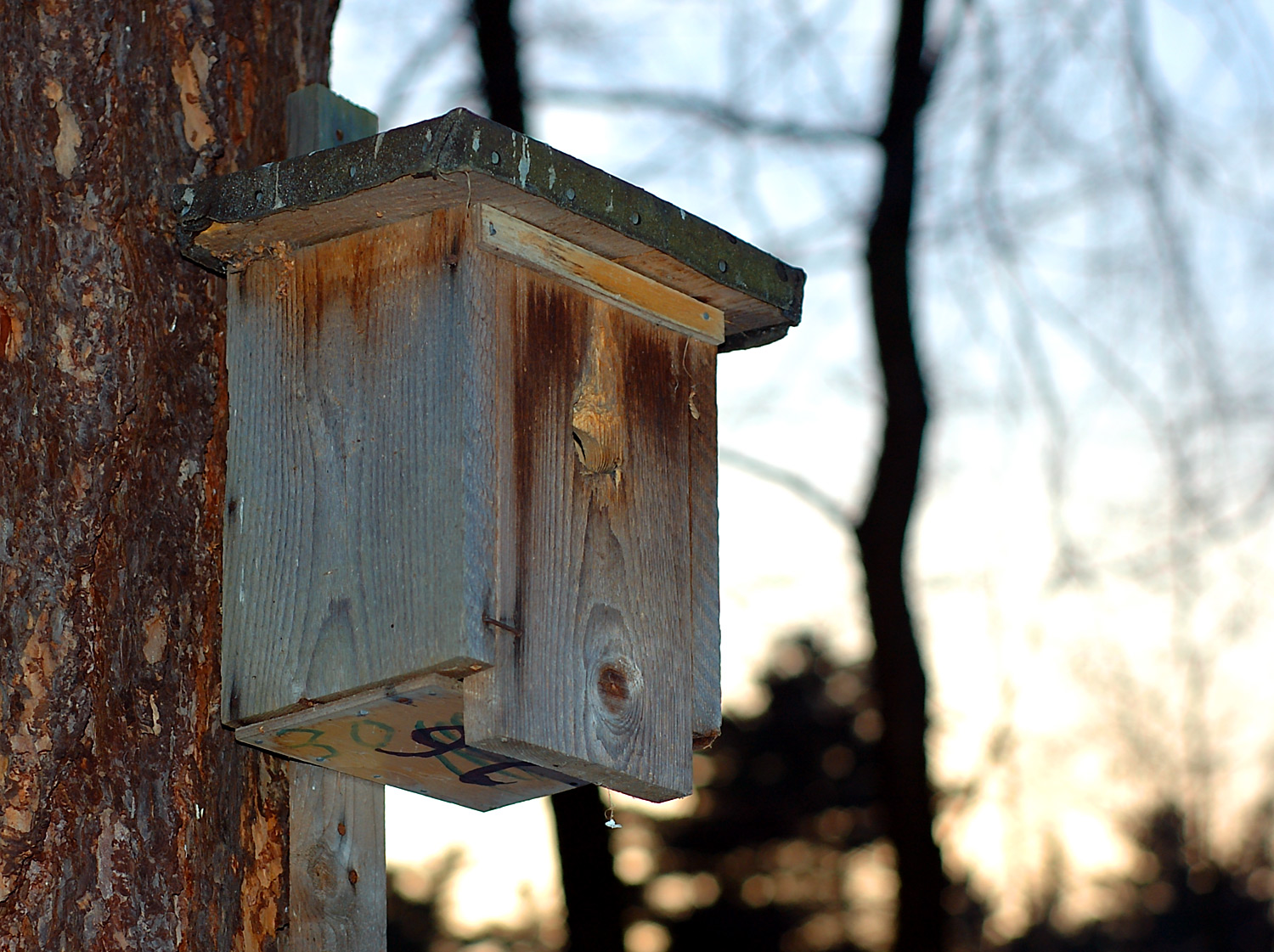 Wooden birdhouse.